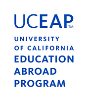 Official UCEAP Logo